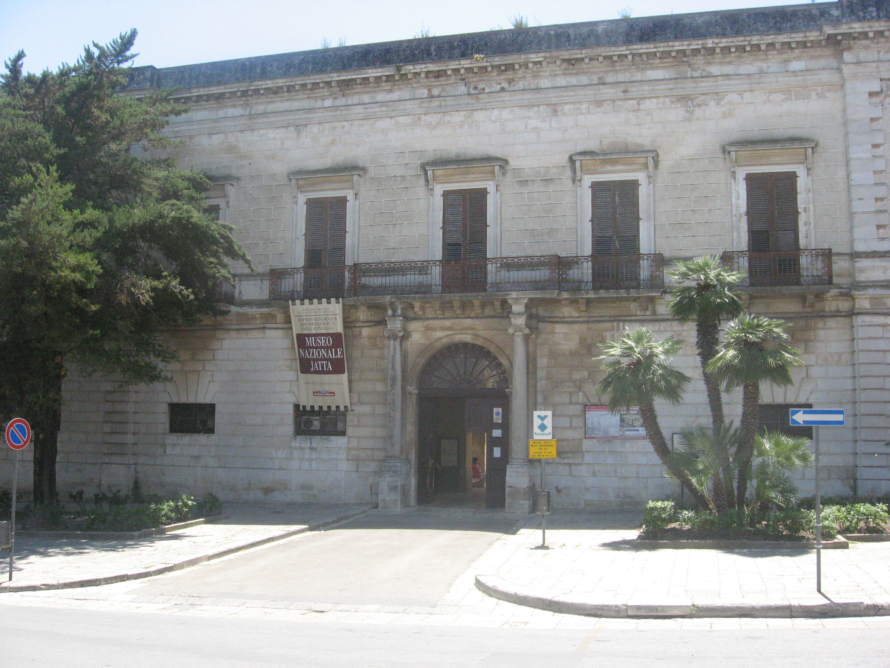 Jatta Palace in Ruvo di Puglia